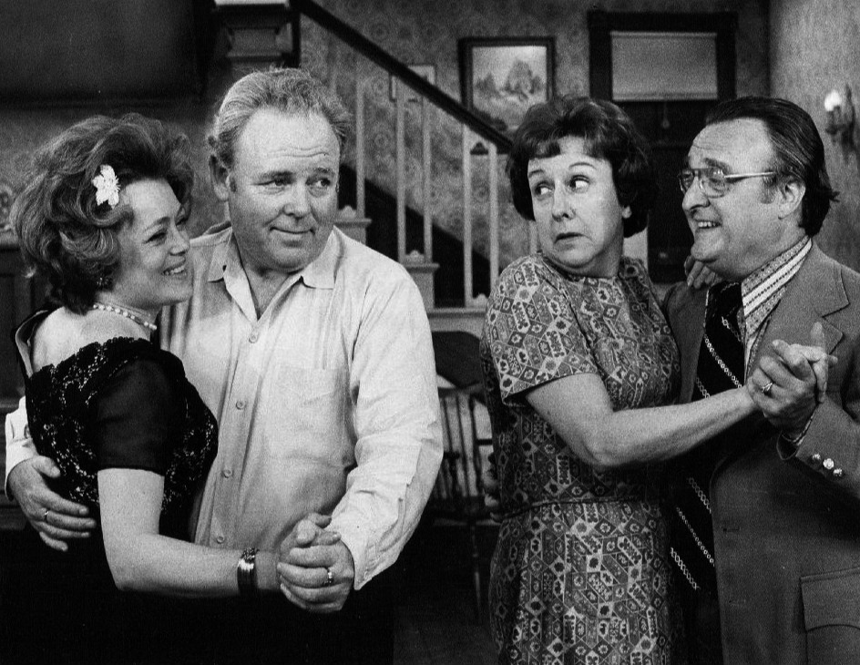 Photo of Rue McClanahan and Vincent Gardenia as Ruth and Curtis Rempley with Carroll O'Connor and Jean Stapleton as Archie and Edith Bunker. When Edith invites a nice new couple she met to come to the Bunkers for the evening, after switching dancing partners, the talk quickly turns to other types of switching.